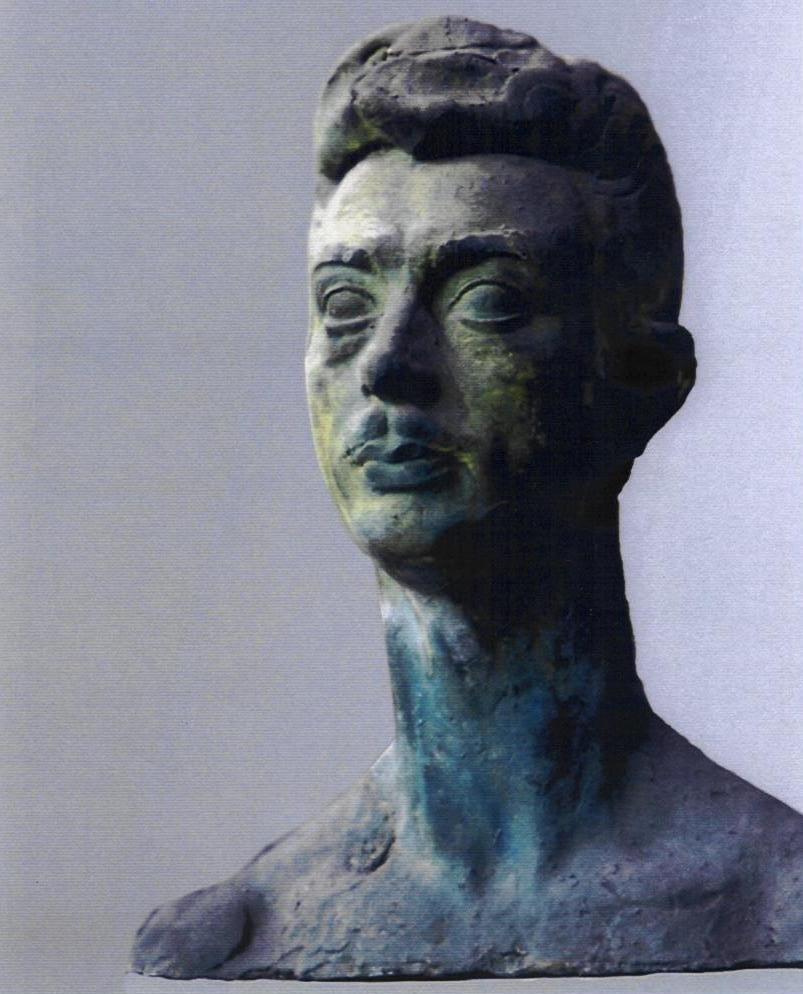 Sculptor Fernando Fernandes